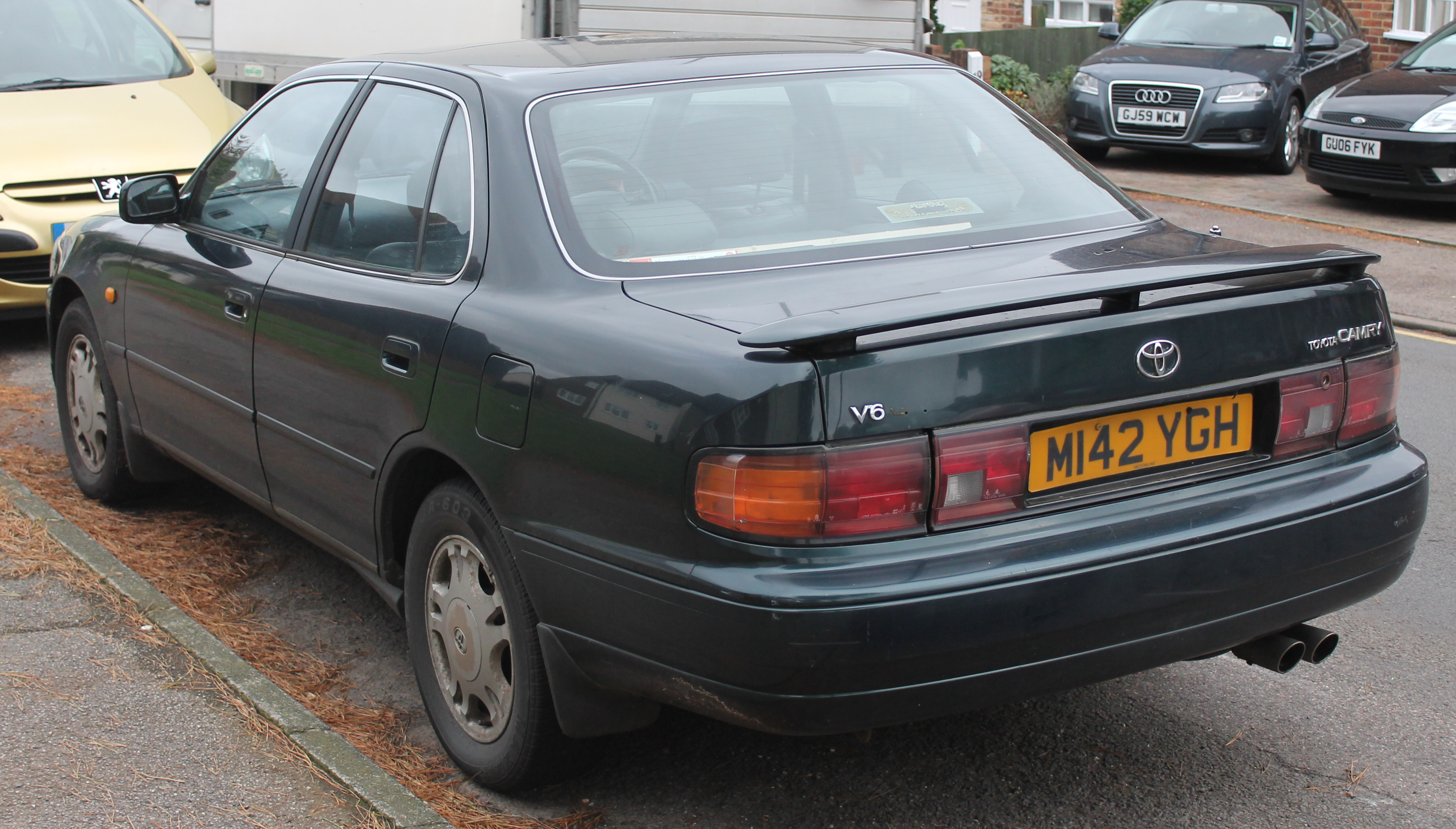 Hopefully this one will interest Spottedlaurel. I haven't seen a Camry of any description in the UK for at least 4 years, so this was really pleasing. I'm a big fan of these. This one looked well used but solid. It's had the same owner since May 1998. First registered almost exactly one year before I was born. Registration number: M142 YGH ✔ Taxed Expires: 01 August 2015 ✔ MOT Expires: 09 July 2015